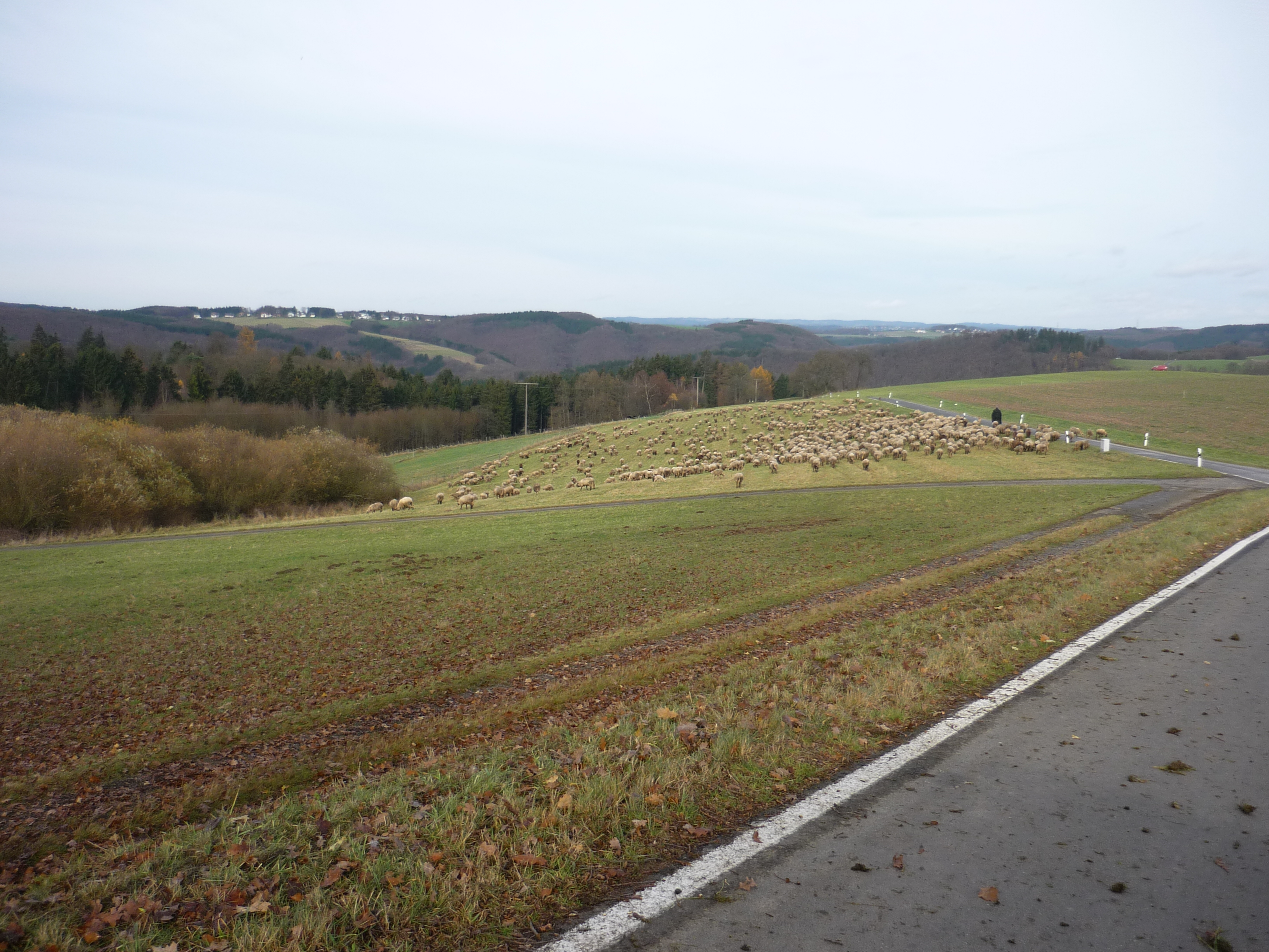 landscape with sheeps at stein-wingert westerwald